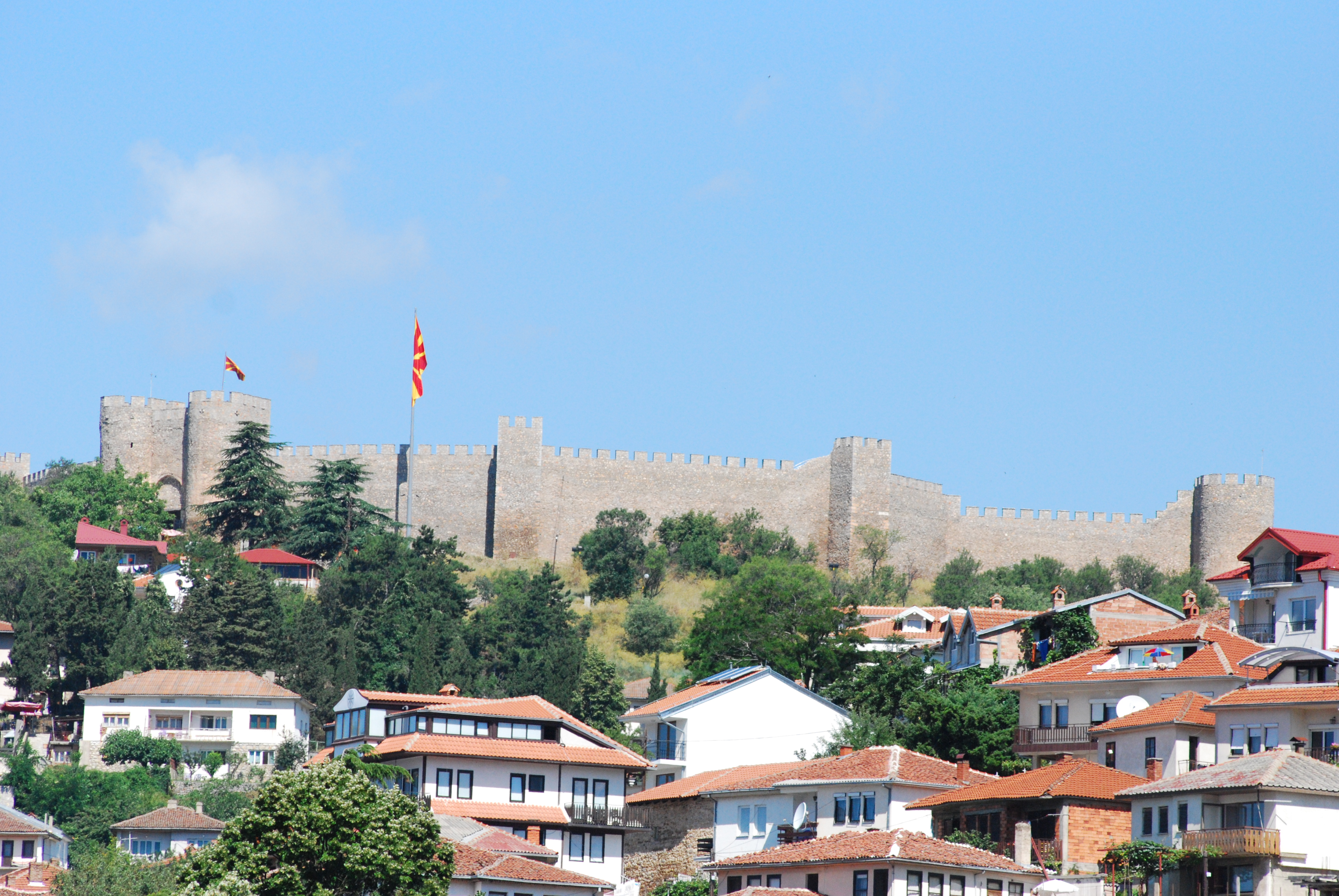 Samuil's Fortress. Ohrid, Macedonia